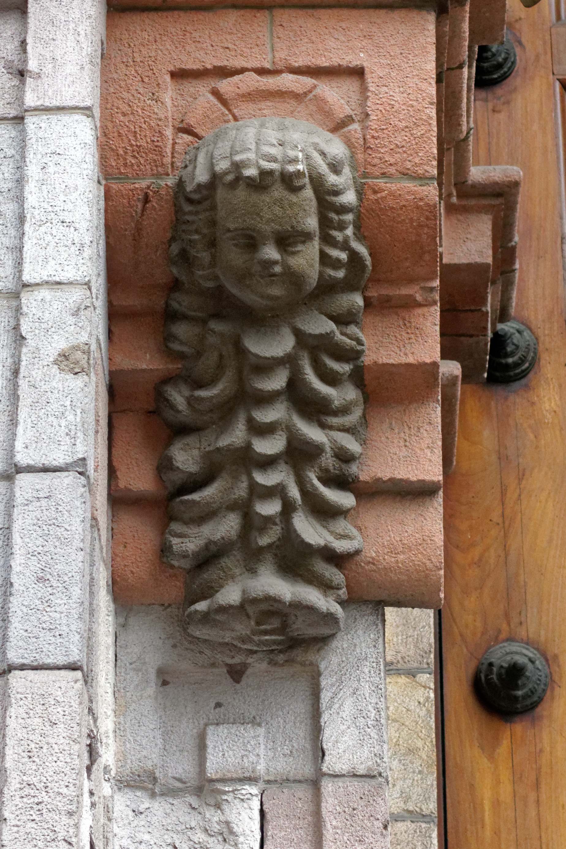 Basílica de Nuestra Señora de la Merced